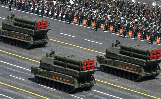 2020 Moscow Victory Day Parade Аҧсшәа: Военный парад на Красной площади в Москве 24 июня 2020 года